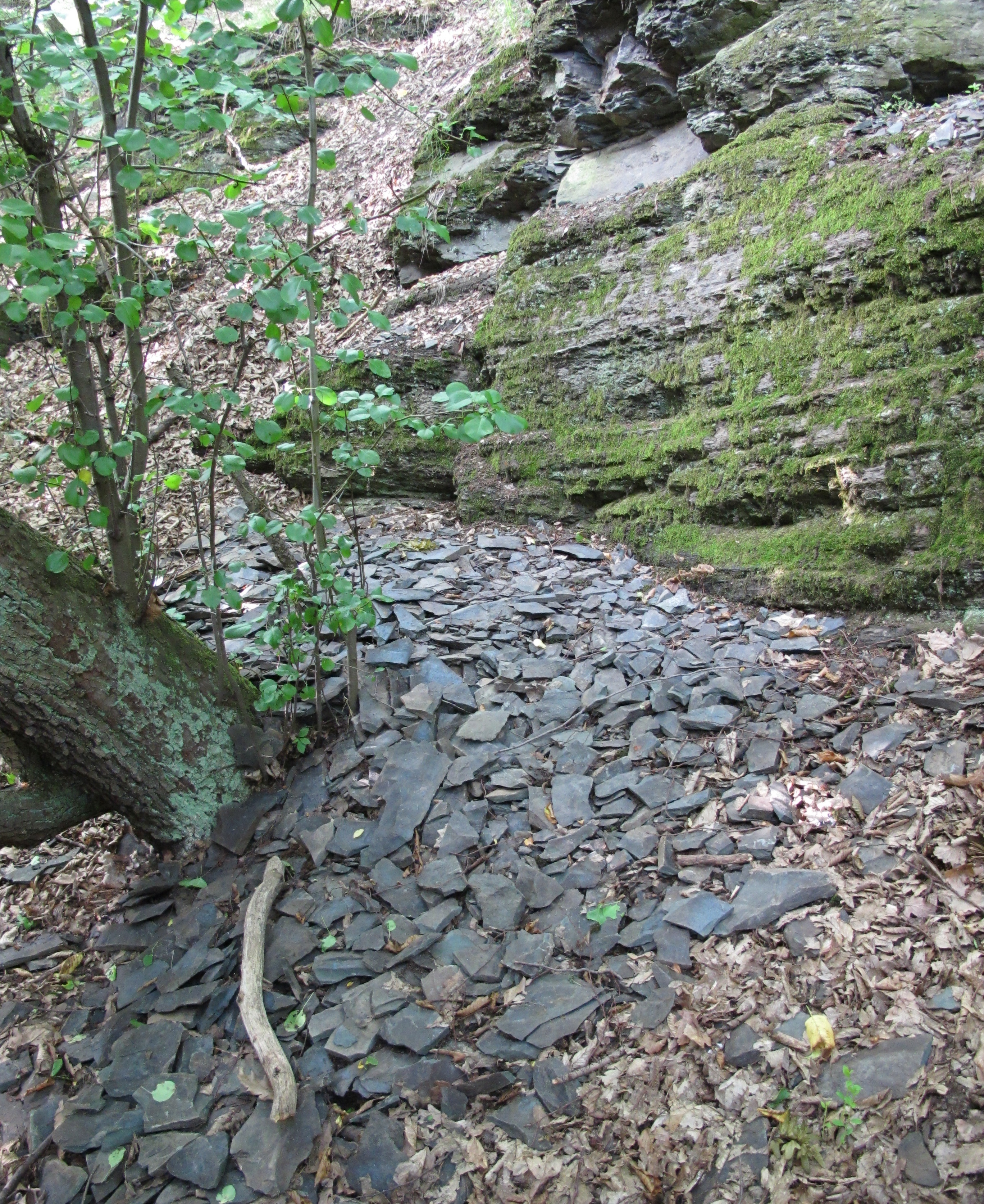 Outcrops of the Cambrian rocks, natural monument Vinice near Jince in Příbram District